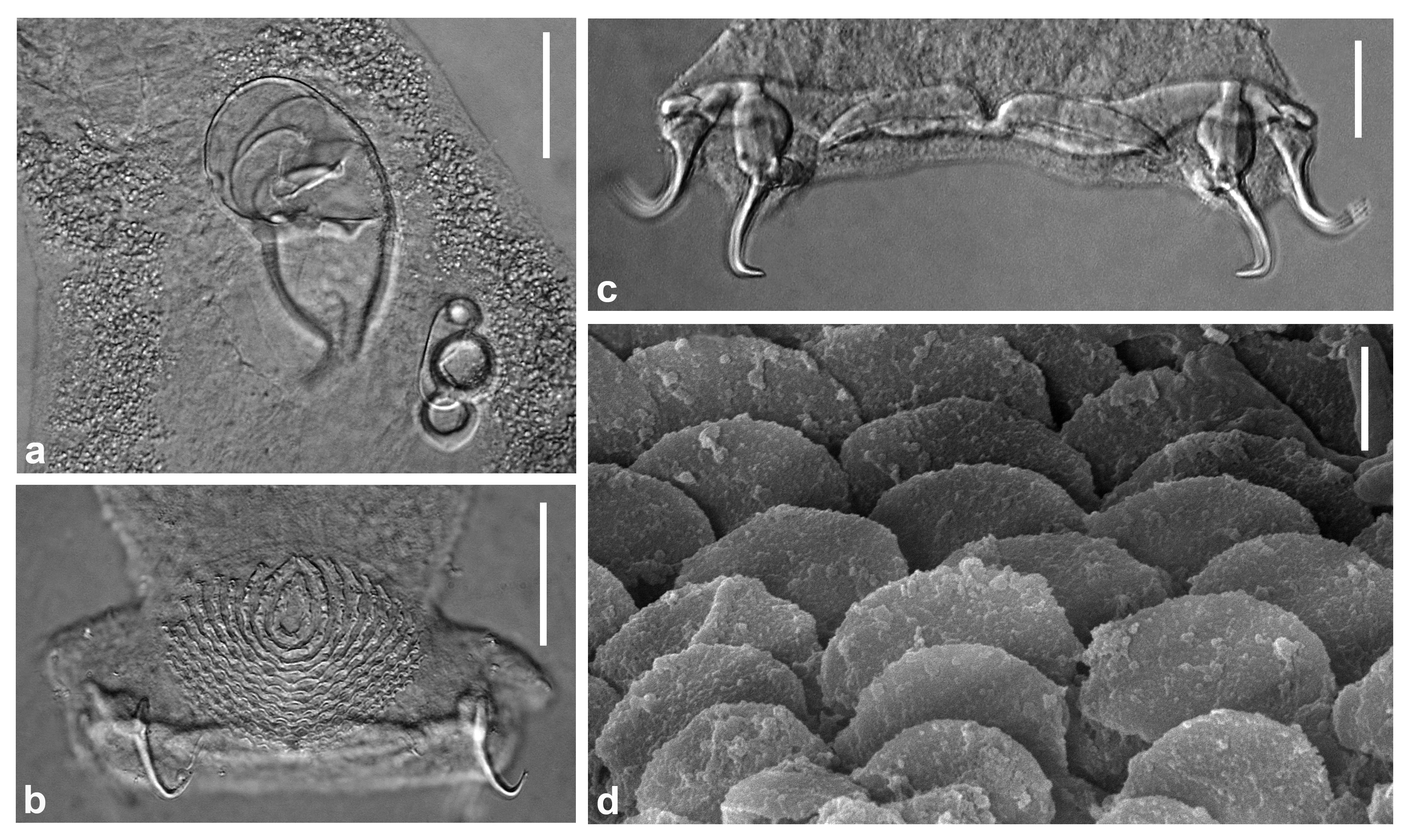 Pseudorhabdosynochus jeanloui Knoff, Cohen, Cárdenas, Cárdenas-Callirgos & Gomes, 2015 (Monogenea, Diplectanidae). Figure 3 of paper Pseudorhabdosynochus jeanloui n. sp. from Paranthias colonus. a–c, brightfield differential interference contrast microscope images. **a, detail of quadriloculate organ and sclerotized vagina, holotype, Hoyer, ventral view. b, haptor, detail of ventral squamodisc and ventral hamuli, holotype, Hoyer, ventral view. c, haptor, detail of ventral and dorsal hamuli and bars, paratype, Hoyer, ventral view. d, scanning electron microscope image, detail of rodlet rows of a squamodisc, ventral view. Scale bars: a–b, 40 μm; c, 20 μm; d, 2 μm.